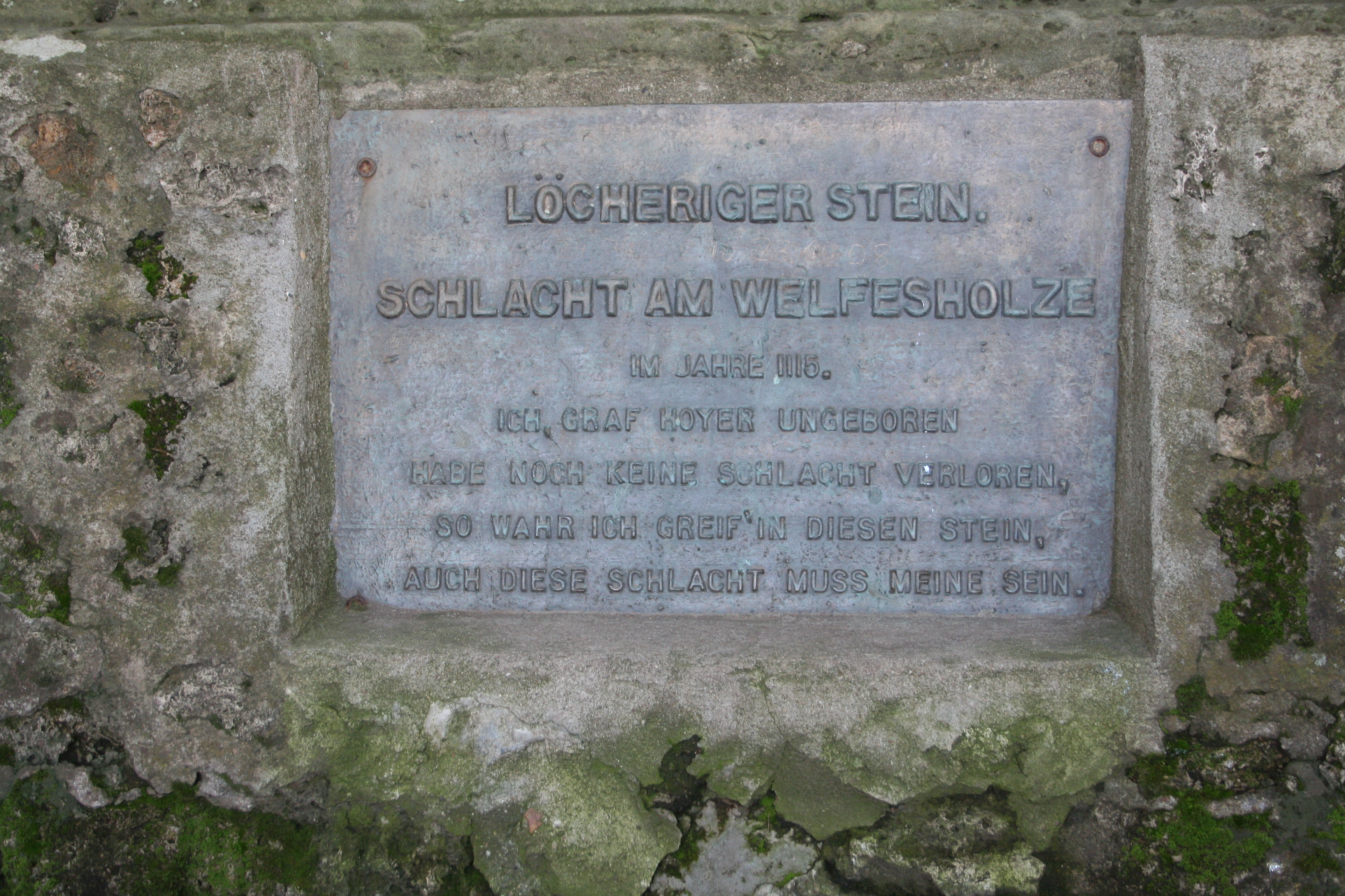 Menhir "Löchriger Stein" ("Holey Stone) or "Hoyerstein" ("Hoyer Stone") near Gerbstedt